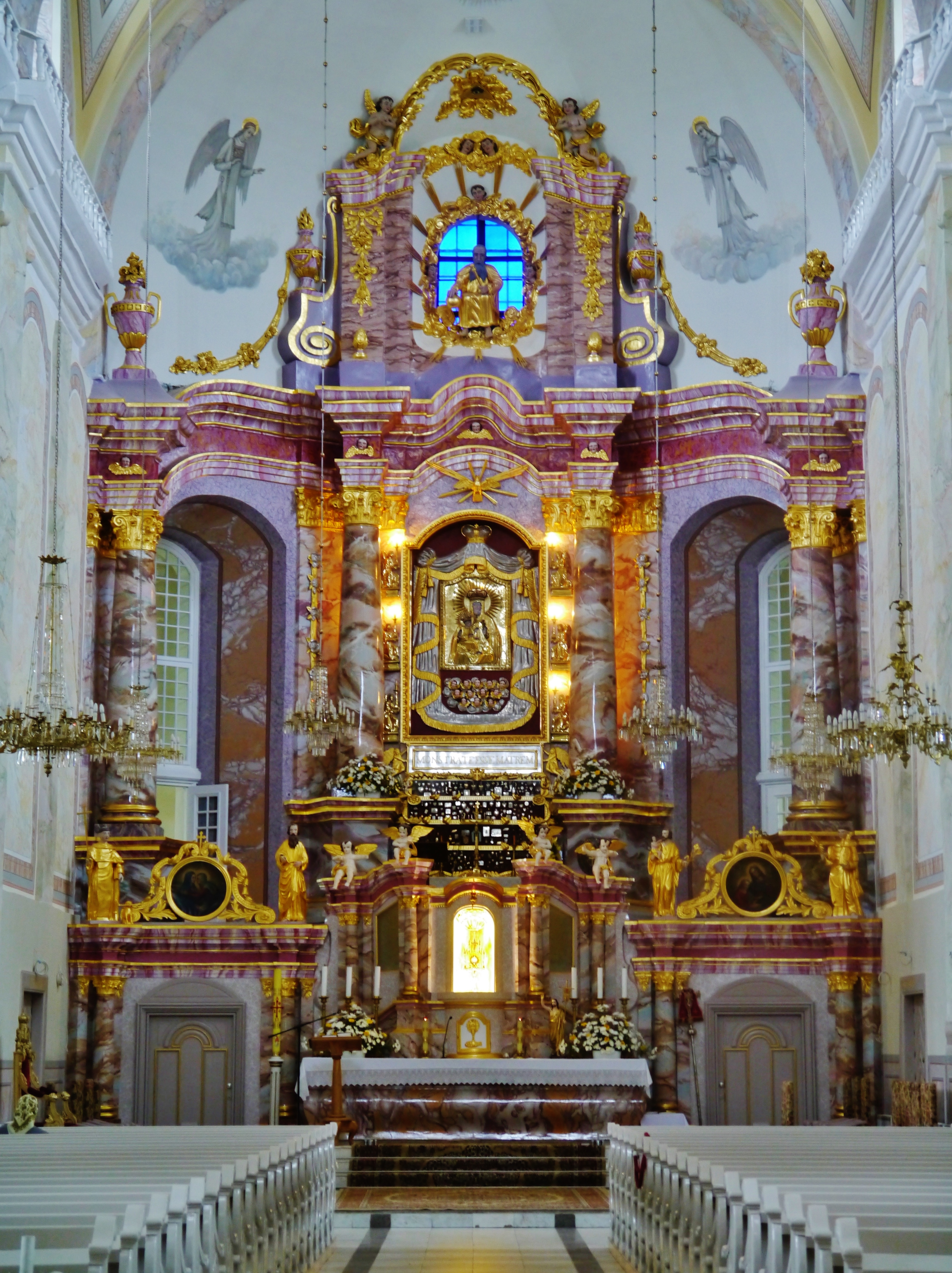 High Altar of the Basilica, Aglona, Latvia